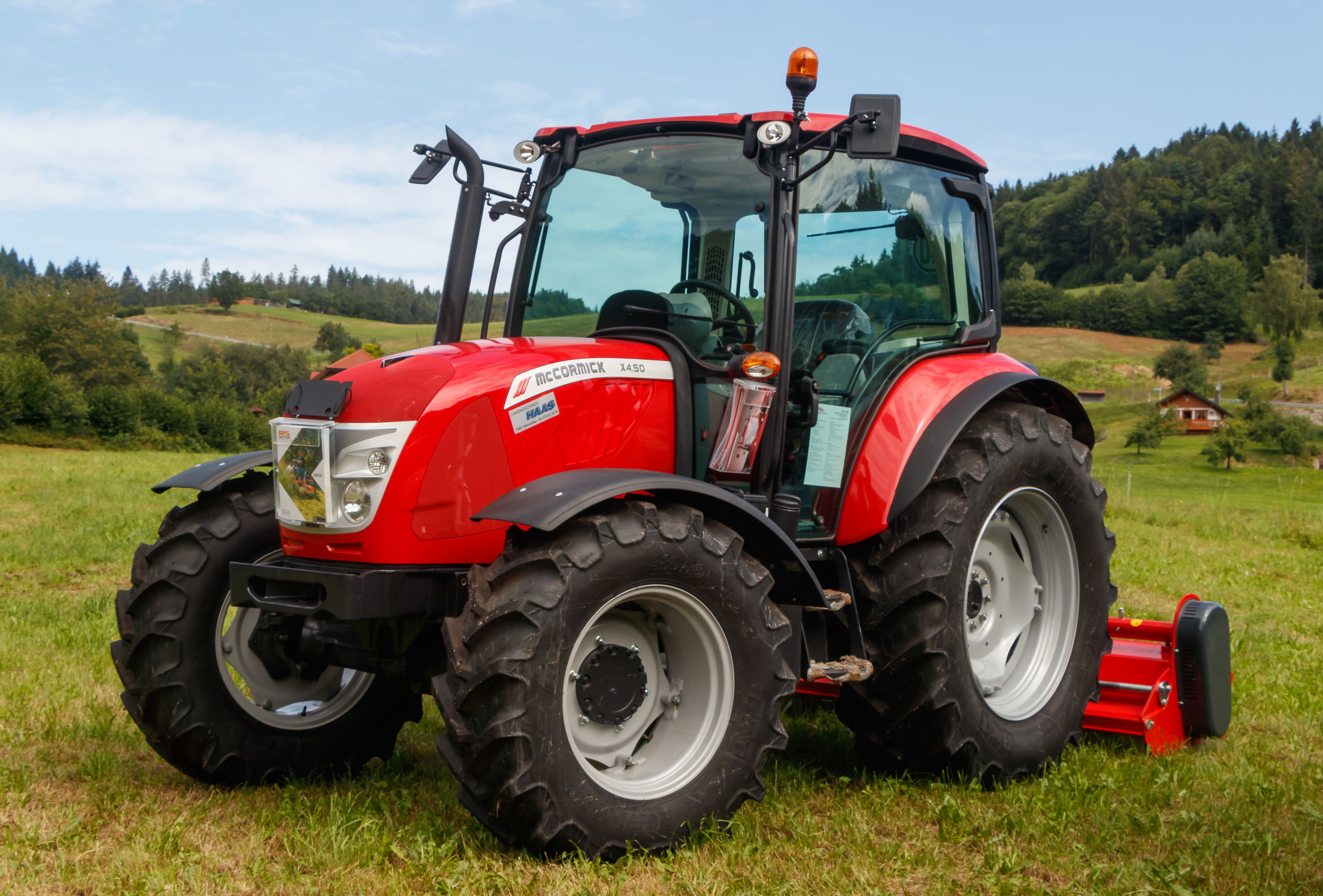 McCormick X4.50 T4i, McCormick Tractors, Fabbrico, Italy, 2014.Cylinder: 4 Engine displacement: 2900 ccmHP: 85Weight: 3193 kgPhotographed at the Mill festival 2019 at Vollmer's Mill, Seebach, Baden-Württemberg, Germany.